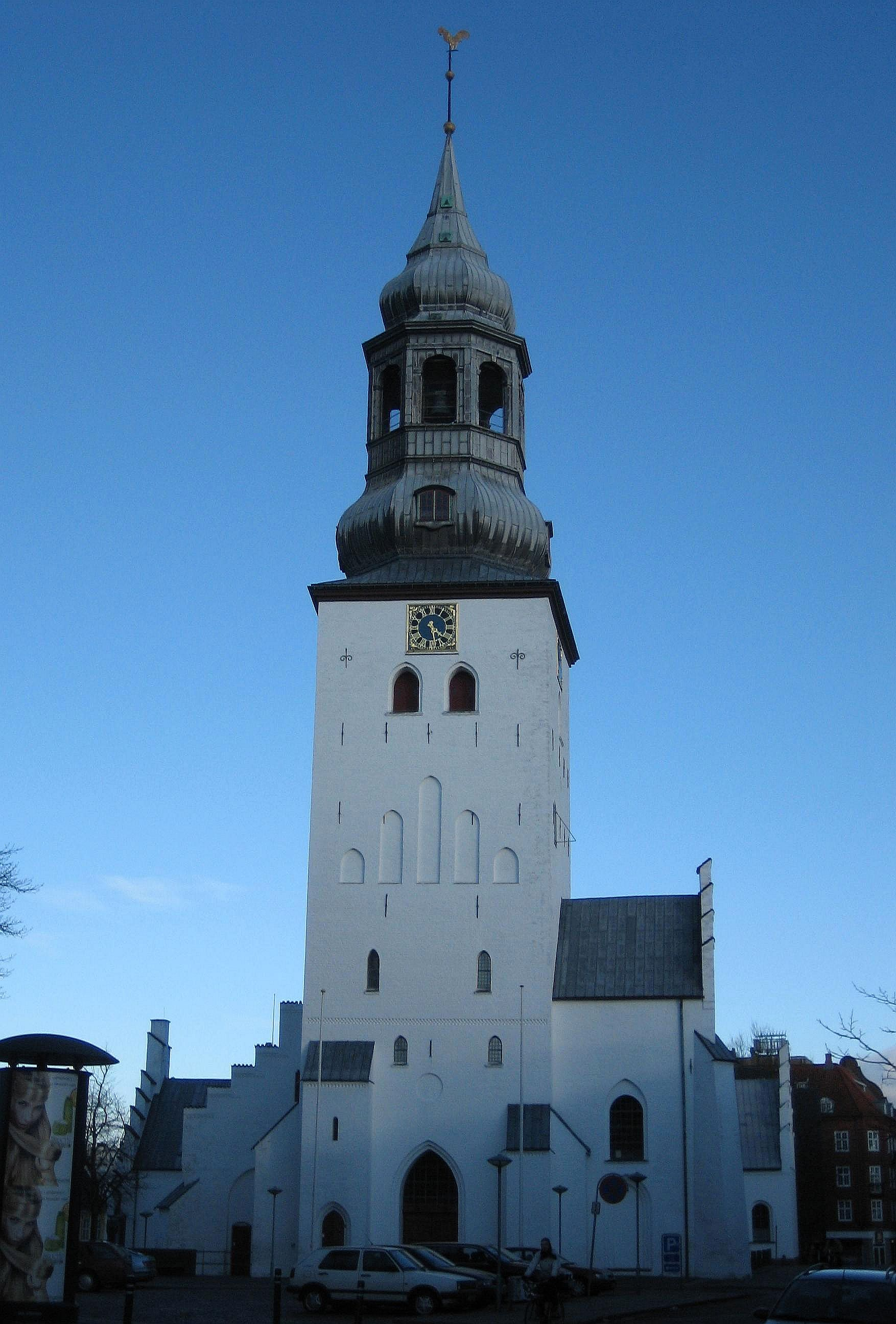 Front of Budolfi Church in Aalborg, Denmark, the sky is blue and and the picture is a bit dark